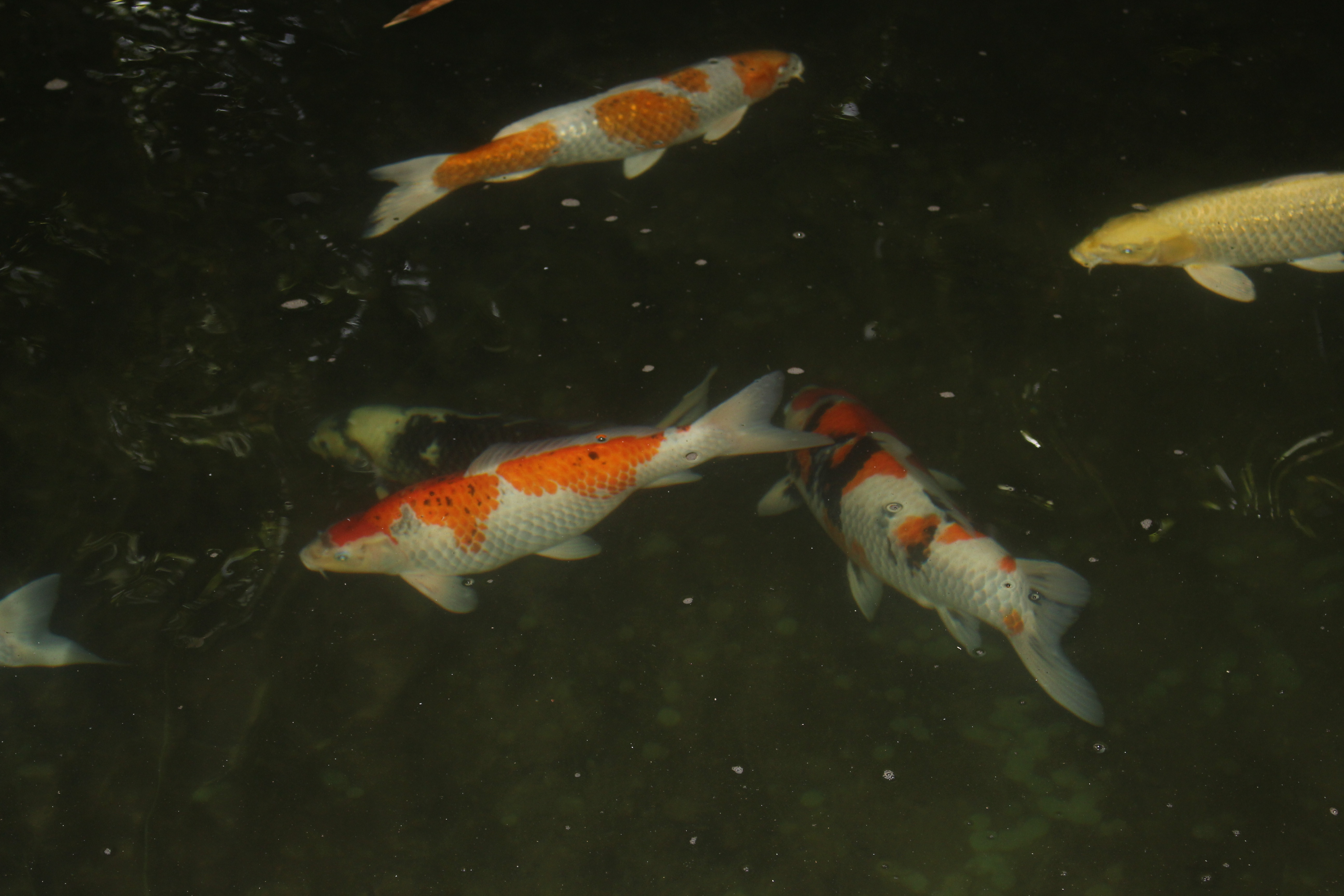 Koi in Marrakesh, Morocco.